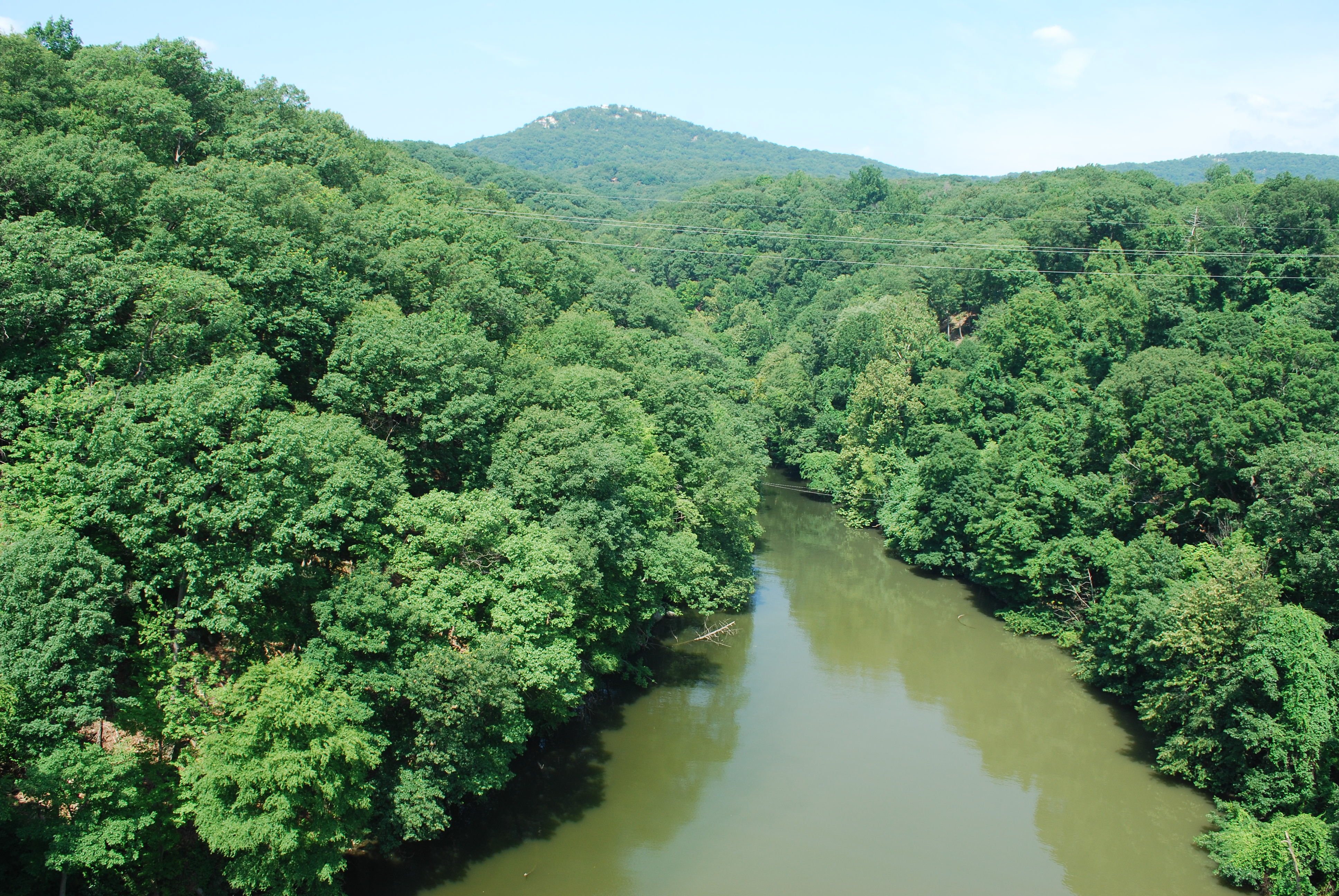 Popolopen Creek & Gorge with Popolopen Torne in the distance, viewed from US Rte 9W bridge on the outskirts of Ft. Montgomery, NY in the Town of Highlands, NY.